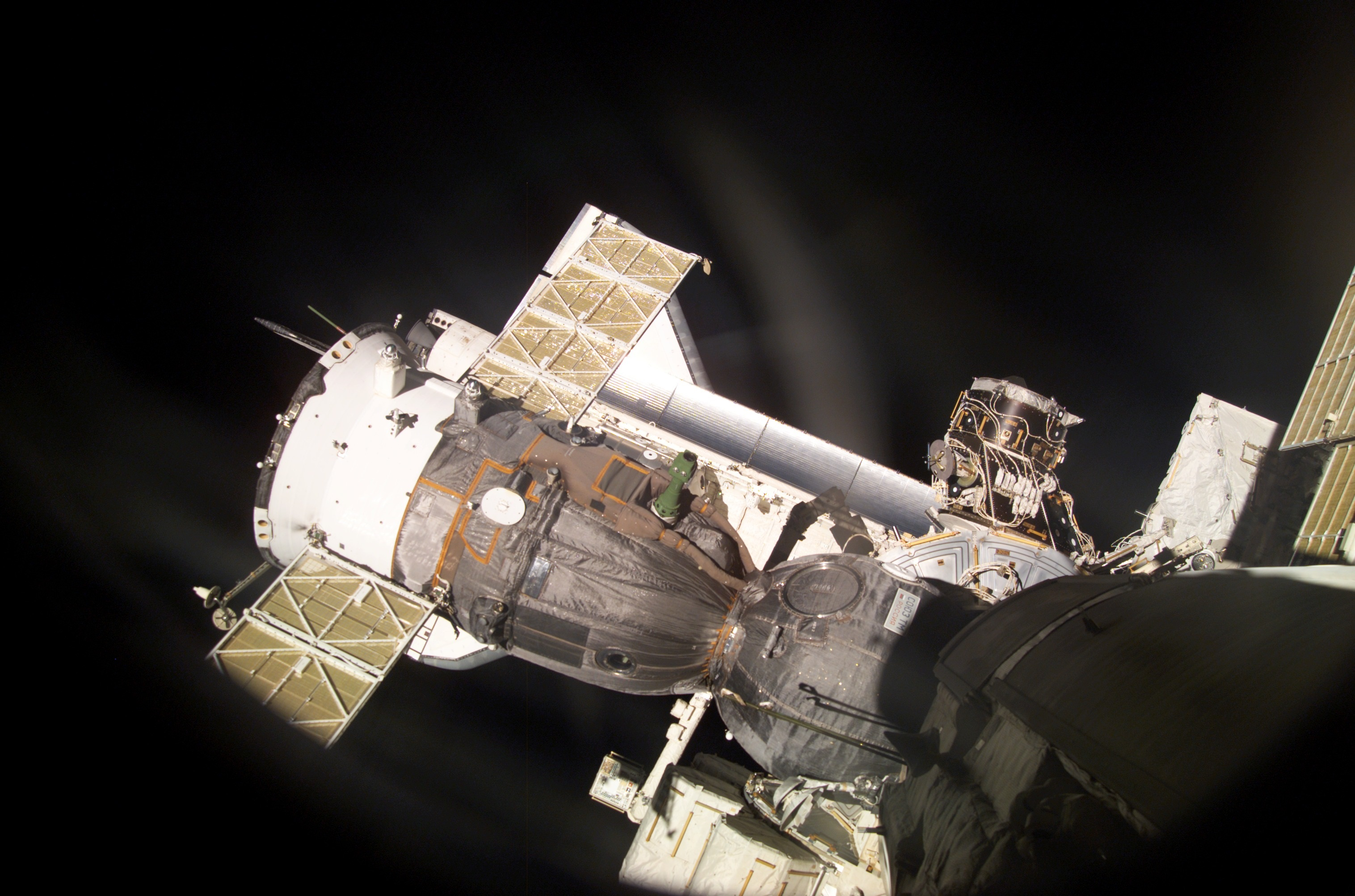 ISS005-E-05039 (15 June 2002) --- A Soyuz vehicle, docked to the International Space Station (ISS), is photographed by a crewmember on the station. A portion of the Space Shuttle Endeavour is visible in the background.